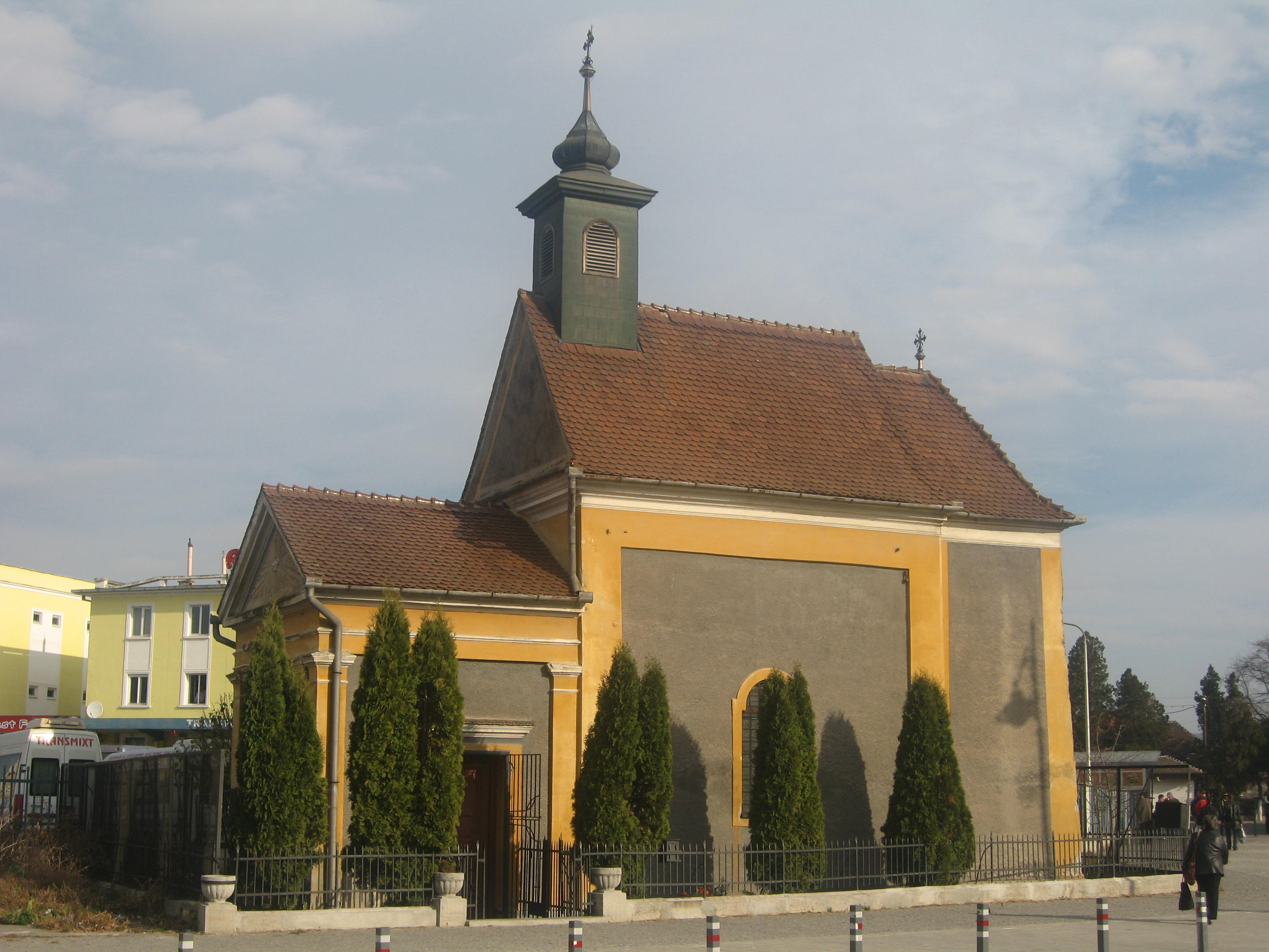 St. Cross Chapel of Sibiu, Romania